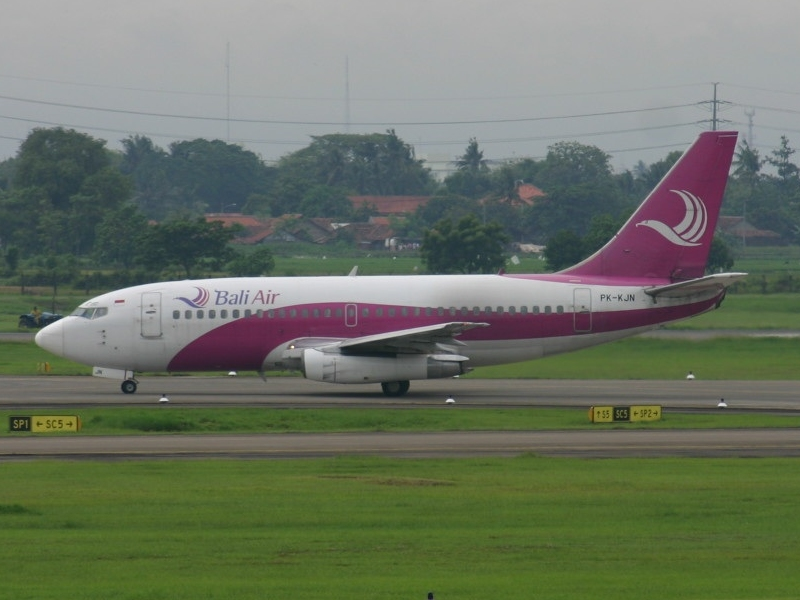 At Jakarta Soekarno-Hatta